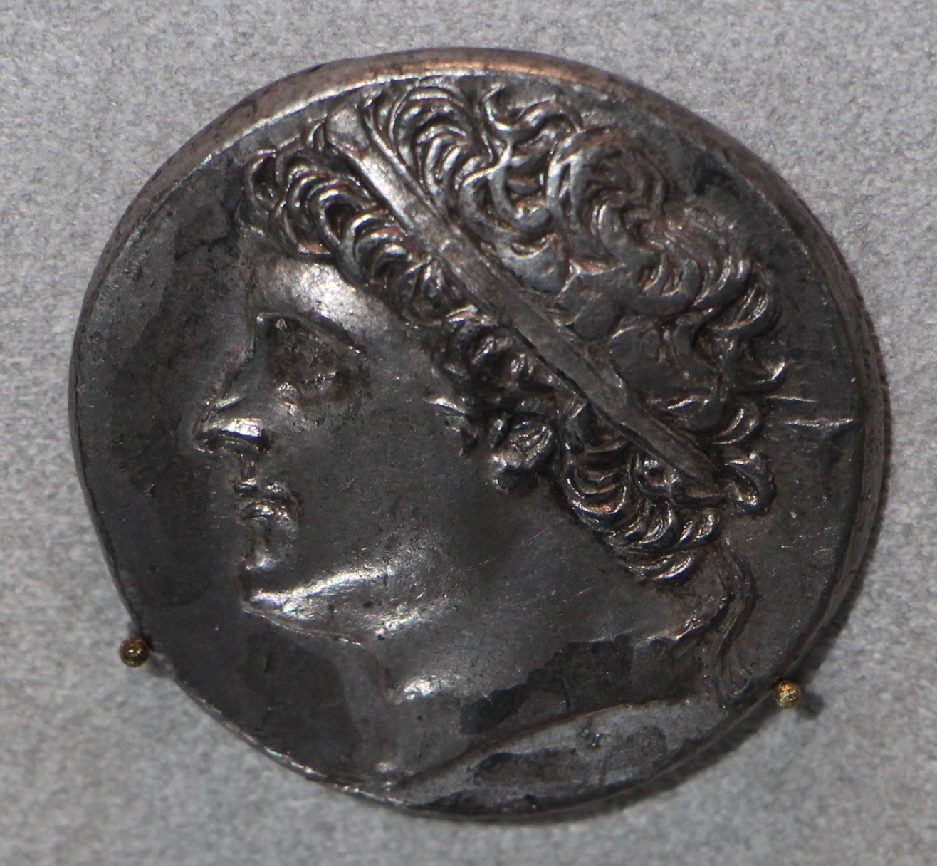 Ancient Greek coins in the Altes Museum Berlin